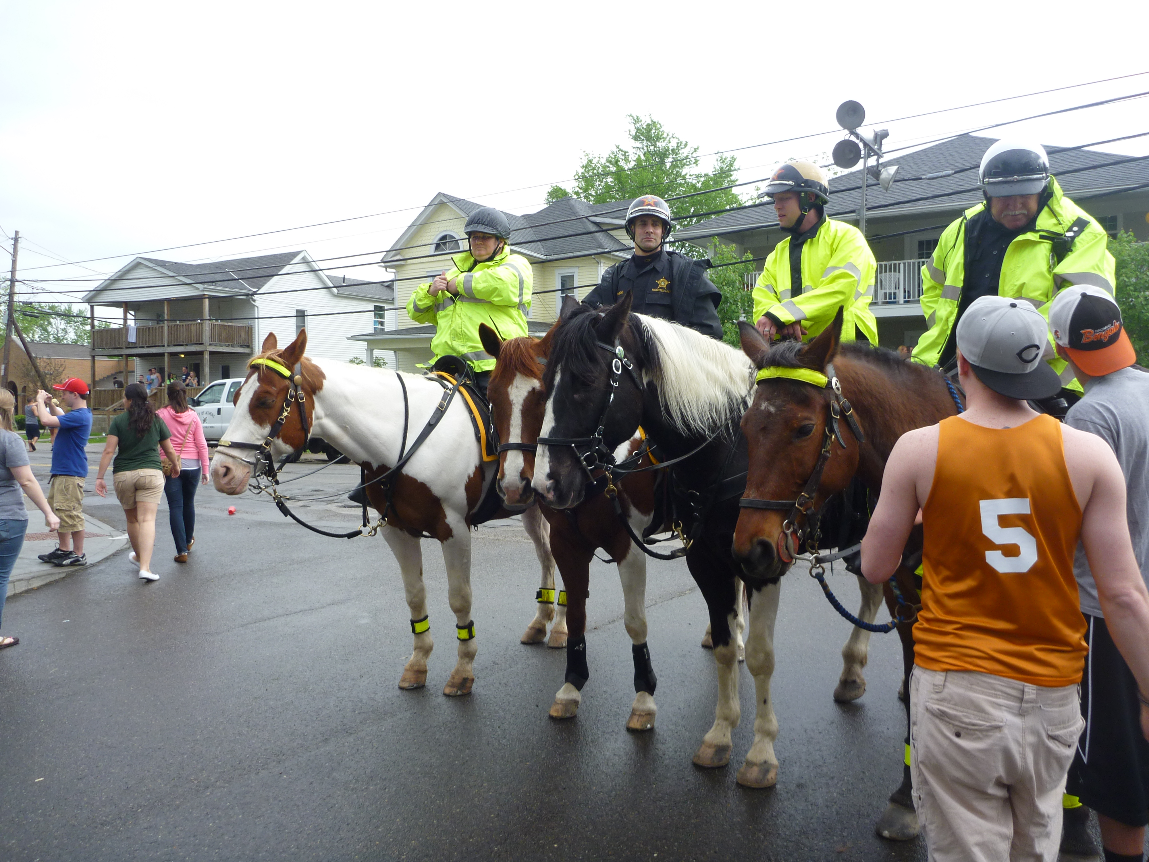 Palmerfest in Athens, Ohio on May 7, 2011. Mounted police look over the party.